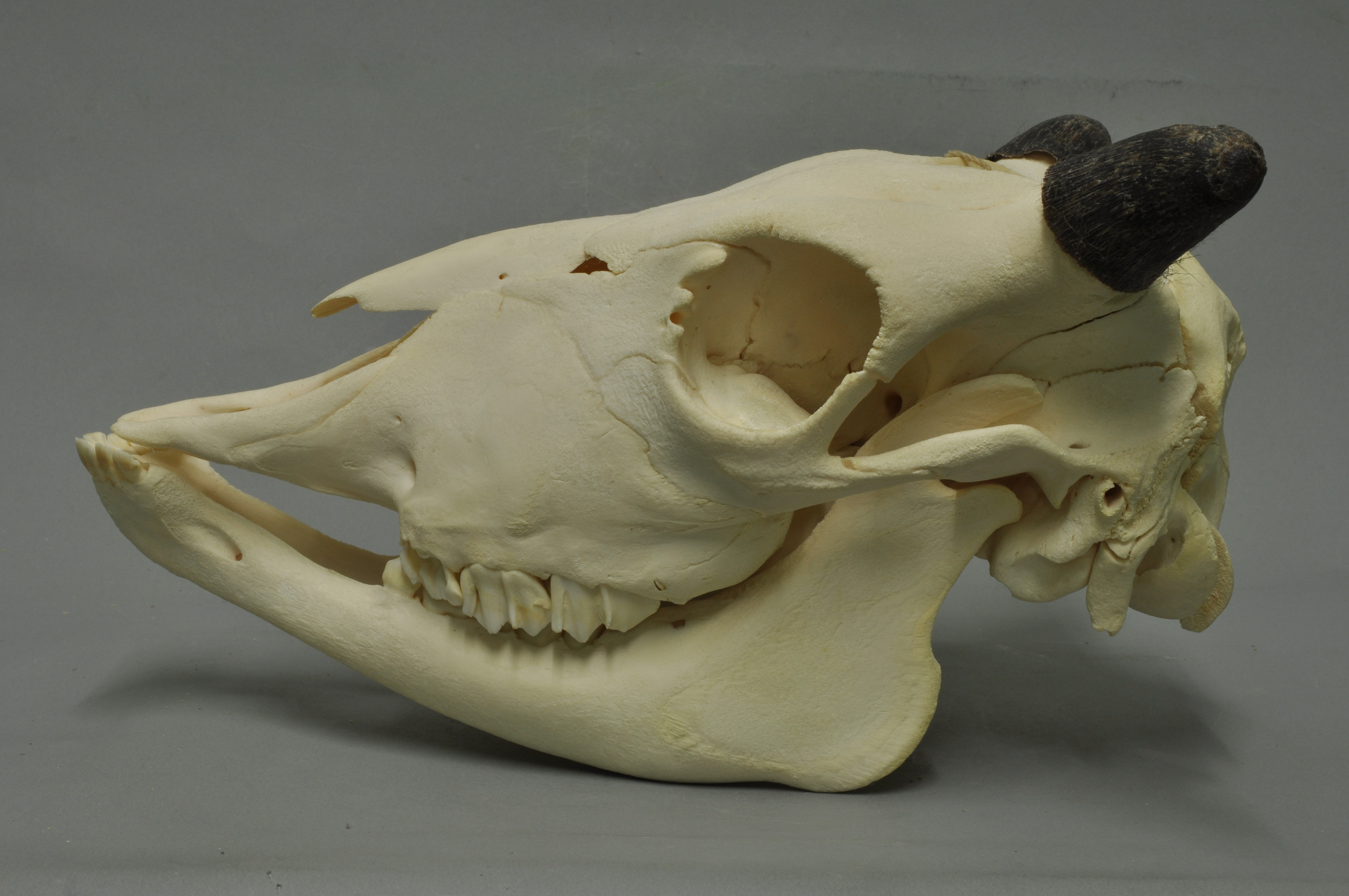 European bison Bison bonasus, skull, Coll. Museum Wiesbaden